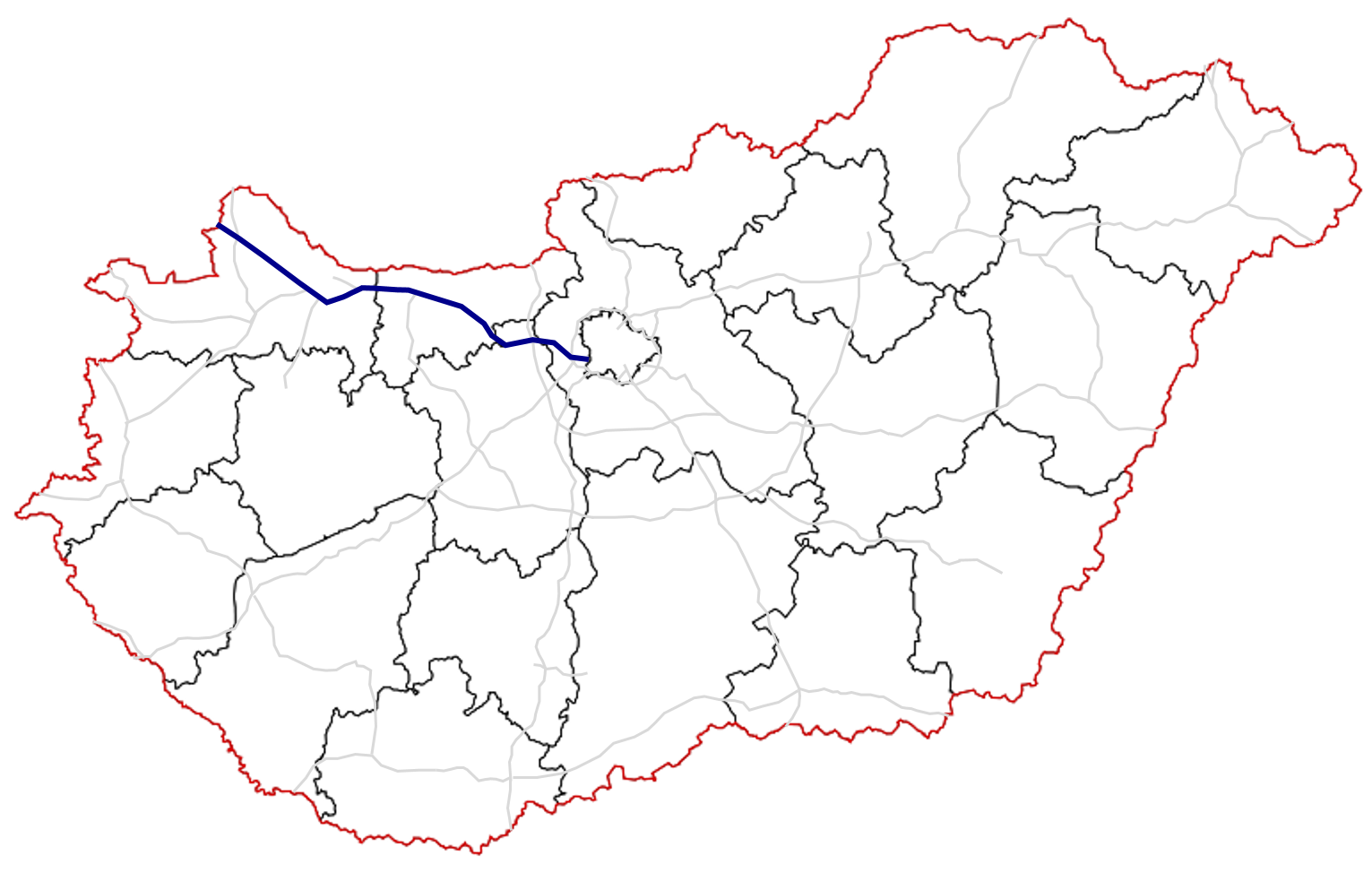 Traject the M1 Motorway, Hungary (Blue: in use, Light blue: under construction, Green: planned)